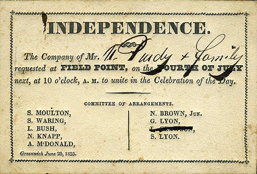 Invitation to Independence Day celebration at Field Point in Greenwich, Connecticut, dated June 20, 1825. Store Web page states: "engraved card was an invitation to an 1825 Independence Day celebration at Field Point in Greenwich CT. [...] The invitation was for the Purdy family [...] Engraved on heavy card stock. The reverse of this 2 7/8" x 4 1/4" card is blank"